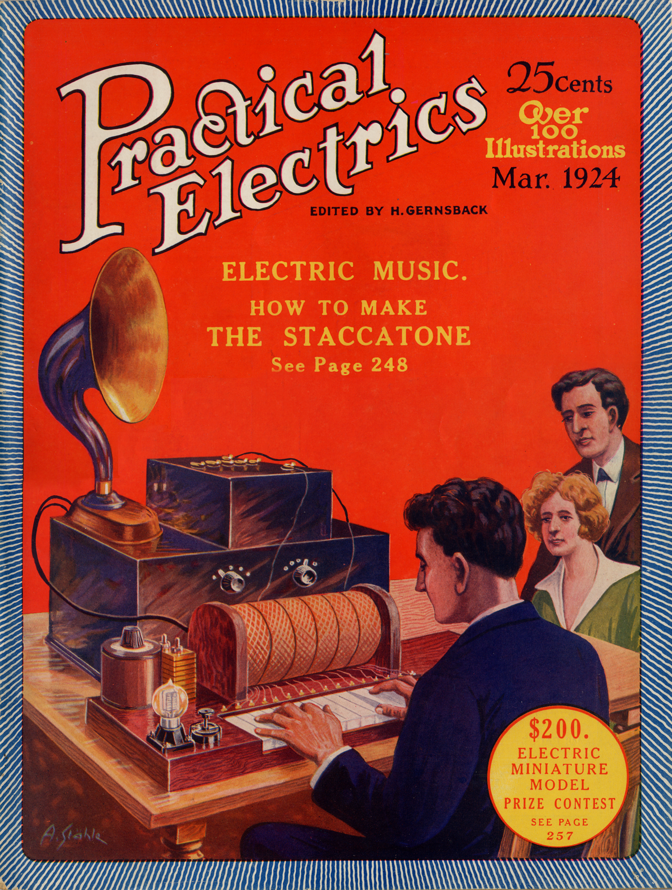 Practical Electrics, March 1924. Volume 3 Number 5. Editor and publisher: Hugo Gernsback, Associate Editor: T, O'Conor Sloane. Cover Art: A. Siohle The Staccatone was an primitive music synthesizer. It would cover two octaves. Image:Practical Electrics Mar 1924 pg248.png Image:Practical Electrics Mar 1924 pg249.png The page numbers were on an annual base, not per issue. This issue had pages 225 to 288. The magazine is 9 by 12 inches (23 by 30 cm).